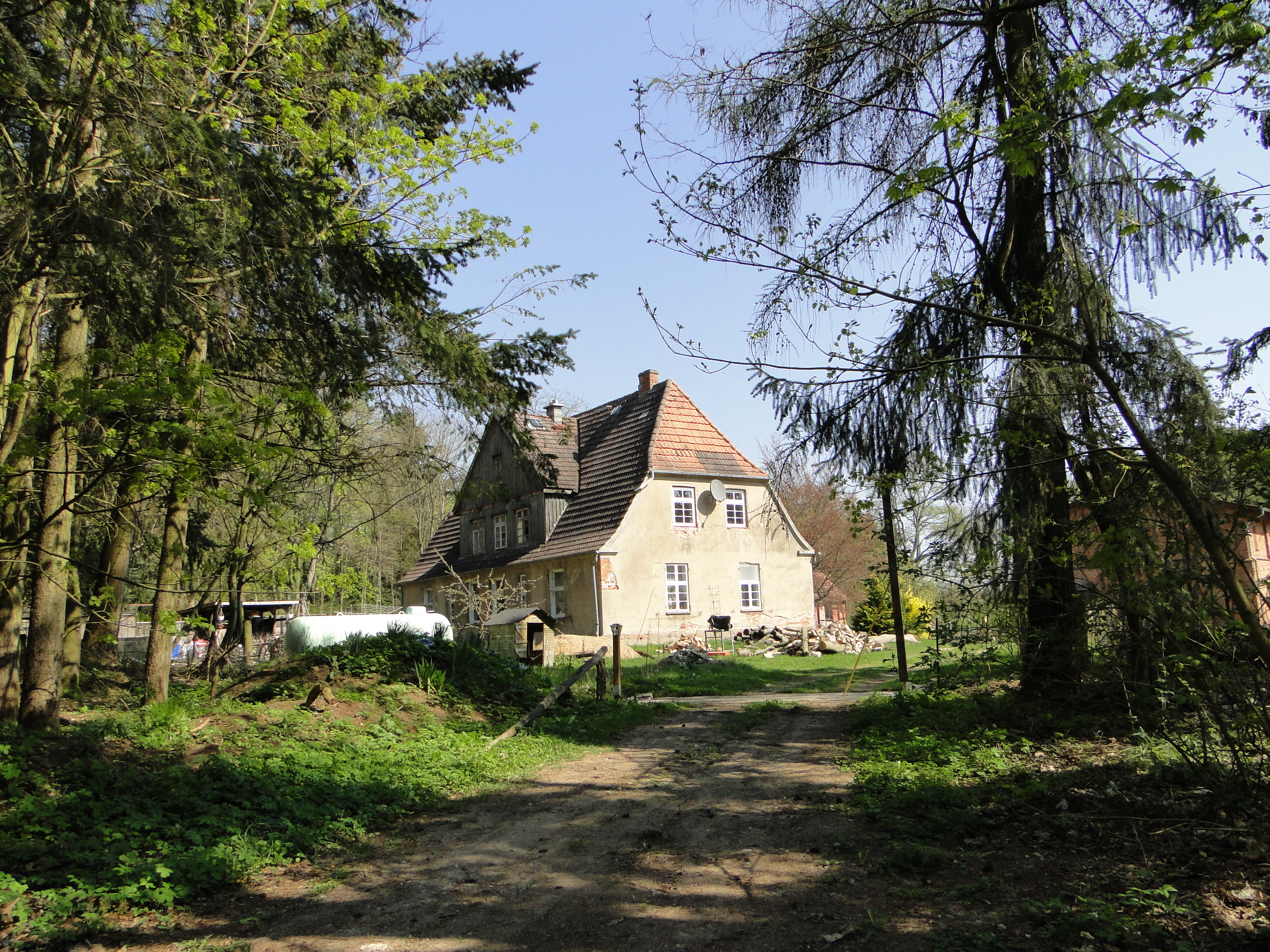 Former forester's lodge in Kläden, district Parchim, Mecklenburg-Vorpommern, Germany